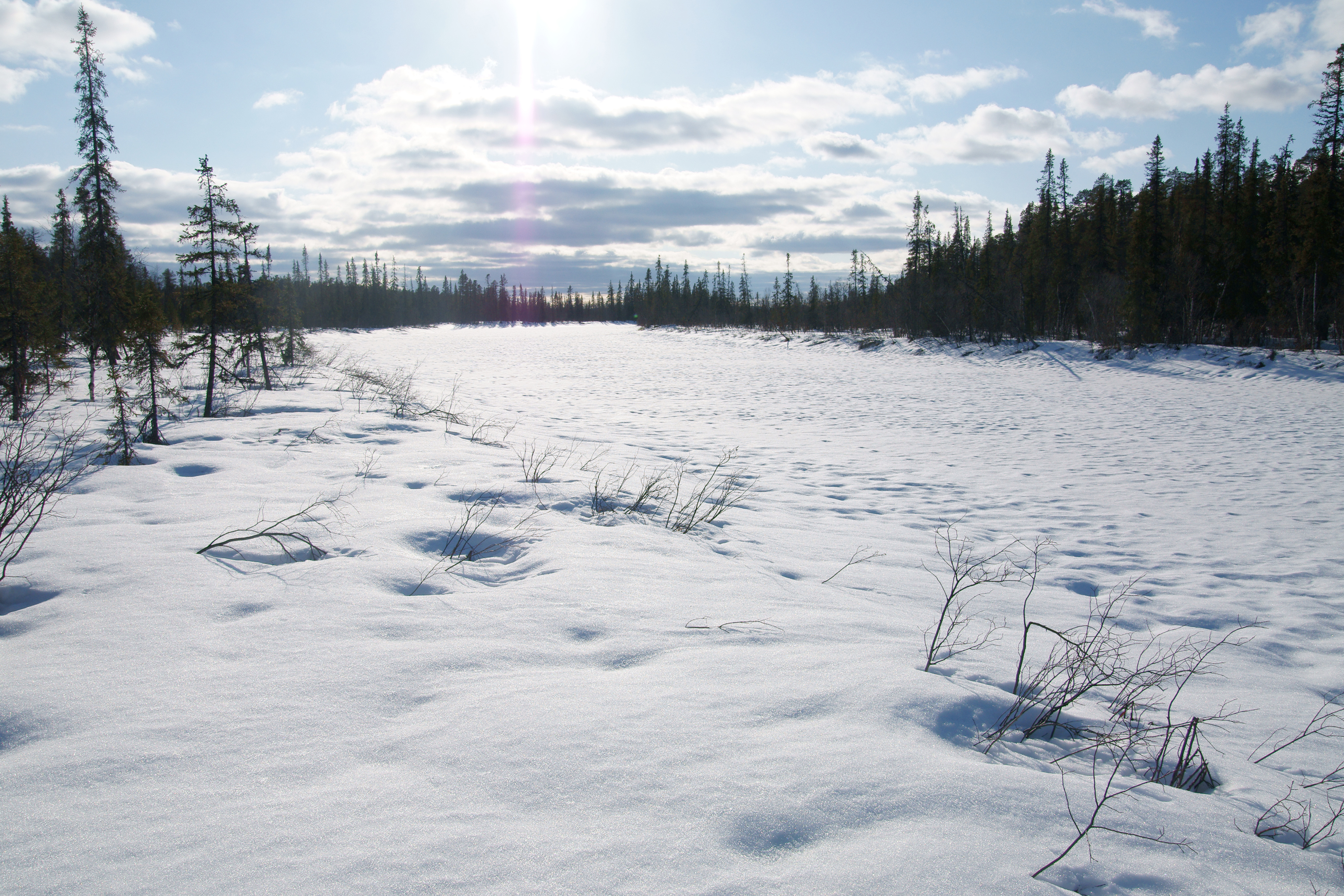 River close to Verkhnetulomskoye.